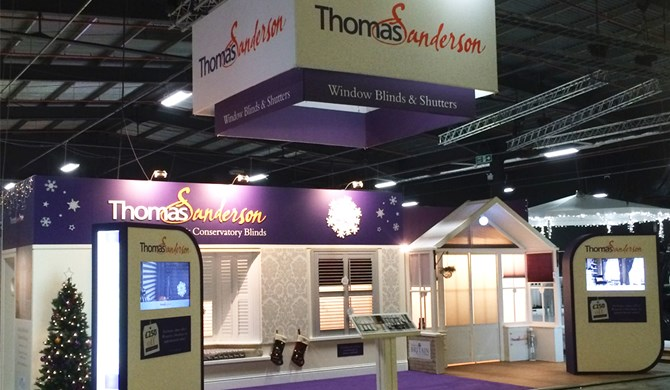 Thomas Sanderson Stand at the Ideal Home Show, Manchester